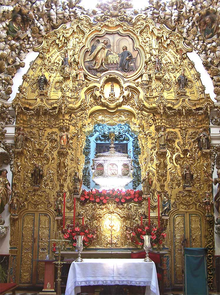 Retablo de la Capilla de los Santos Mártires, en la iglesia de San Pedro (Córdoba), obra de Alonso Gómez de Sandoval (hacia 1760).